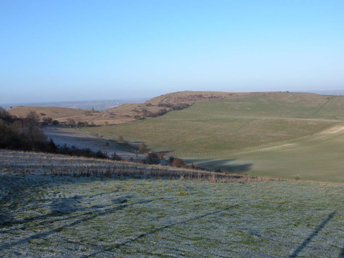 Ivinghoe Beacon, from near the car park. From this side, the hill is undramatic; is is steeper on the far side.